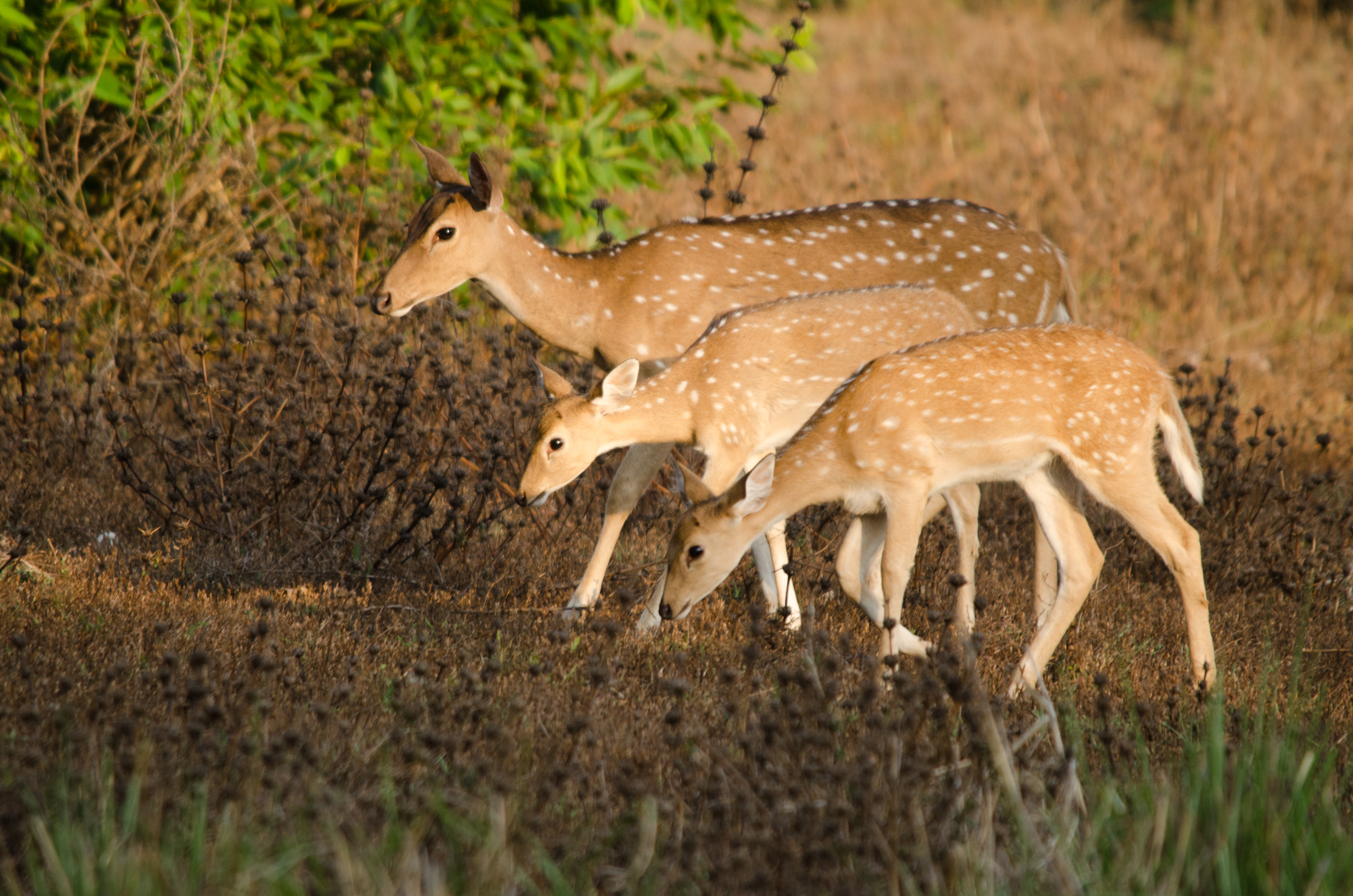 Deer Family grazing togather